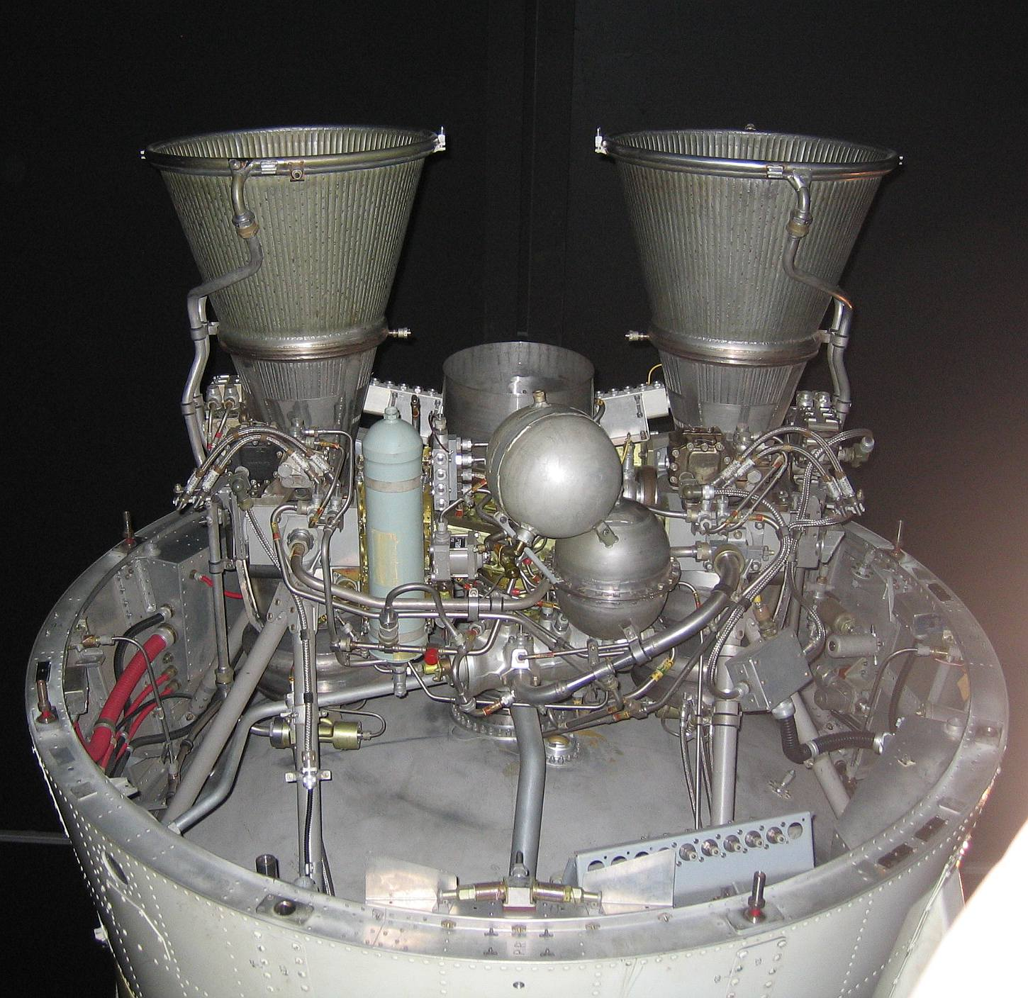 Gamma 2 rocket engine, used for the second stage of the Black Arrow launch vehicle. On display at the Science Museum, London